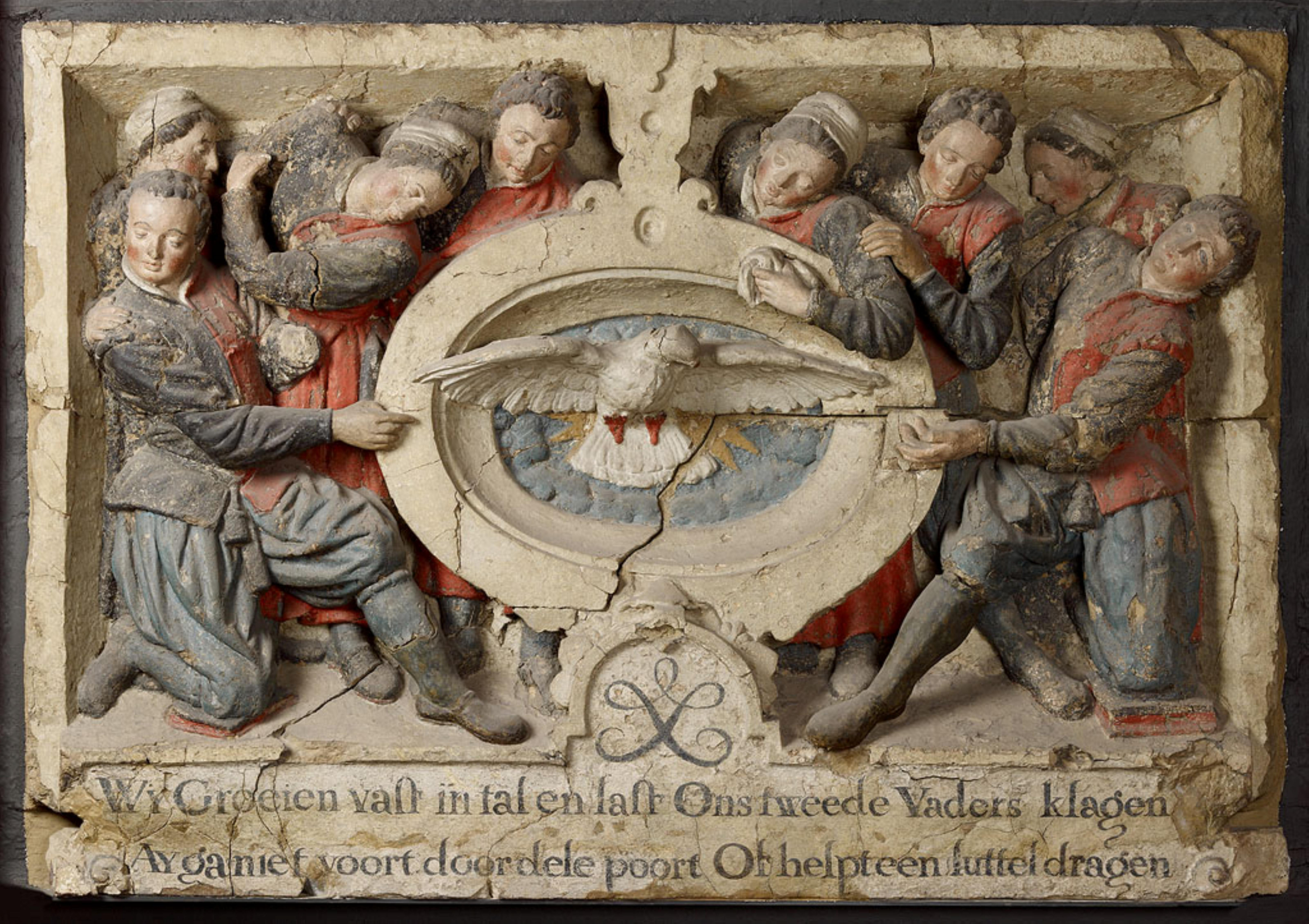 Relief with orphan children grouped around the emblem of the Amsterdam civic orphanage, the Burgerweeshuis